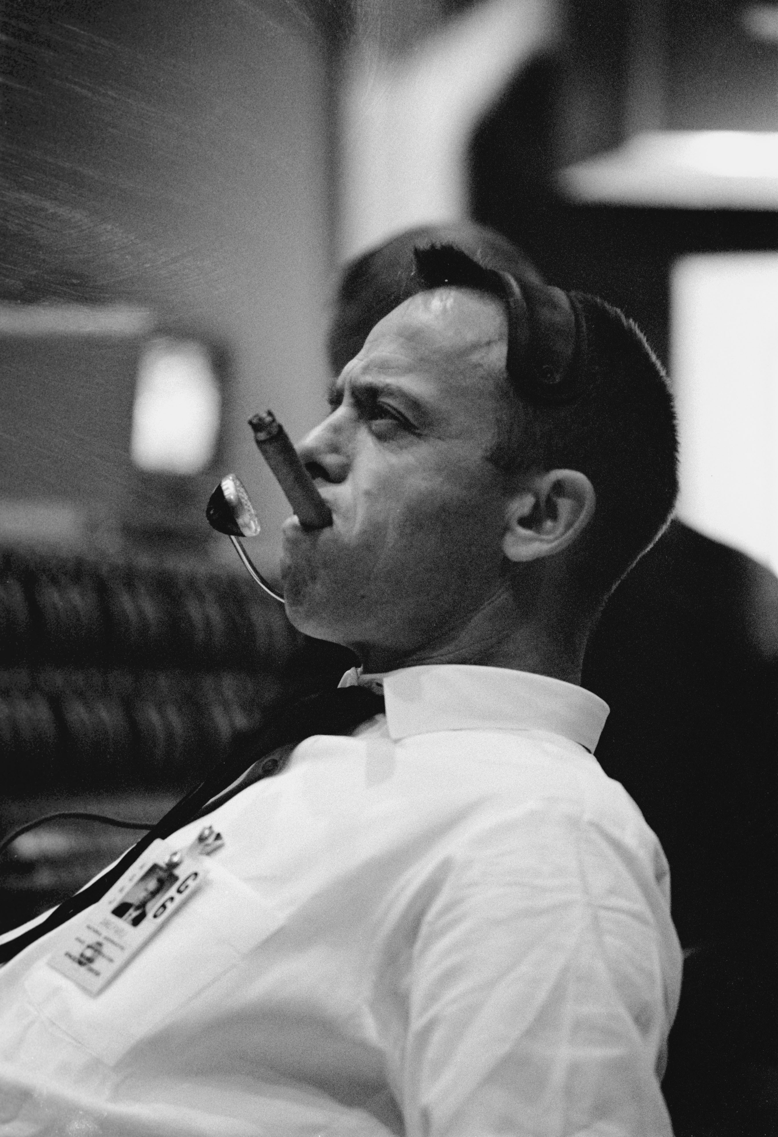 Astronaut Alan B. Shepard Jr., chief, astronaut office, NASA's Manned Spacecraft Center in Houston, chomps vigorously on a cigar during relaxing moments following the Gemini-6 liftoff. He is seated at his console in the Kennedy Space Center Mission Control Center. The National Aeronautics and Space Administration (NASA) successfully launched Gemini-6 from Pad 19 at 8:37 a.m. (EST) Dec. 15, 1965. A two-day mission in space was scheduled for astronauts Walter M. Schirra Jr., command pilot; and Thomas P. Stafford, pilot. An attempt will be made to rendezvous Gemini-6 and Gemini-7. Image ID: S65-61812